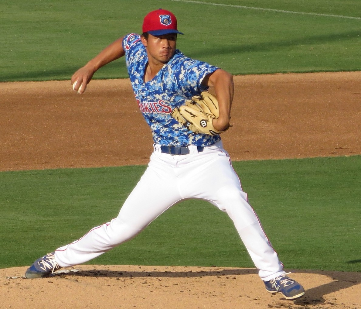 Jen-Ho Tseng